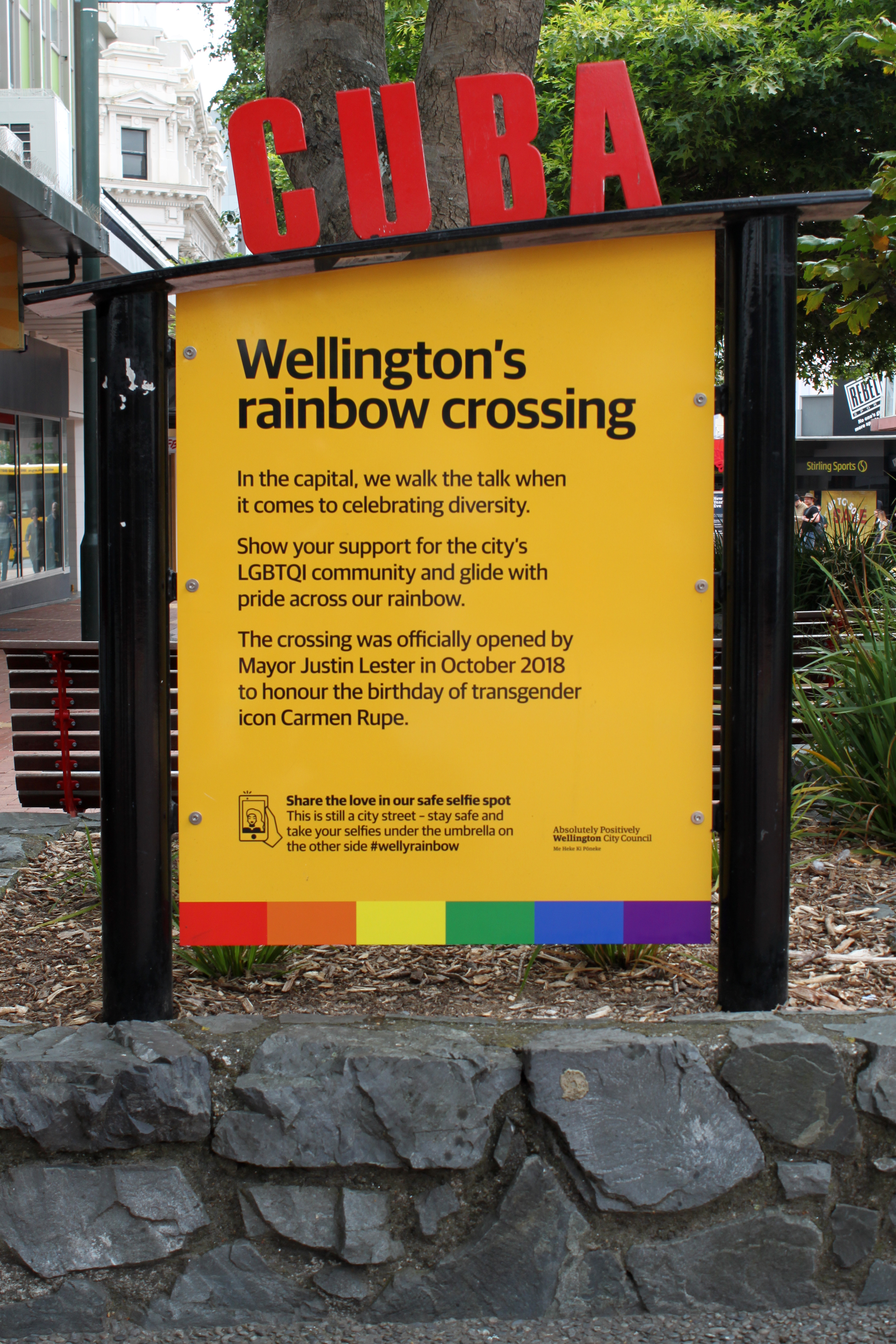 An image of the information panel that is located on the northern side of Wellington's Rainbow Crossing. The crossing is at the intersection of Cuba Street and Dixon Street, Wellington, New Zealand. The crossing was launched on 10 October 2018 to honour the birthday of Carmen Rupe.